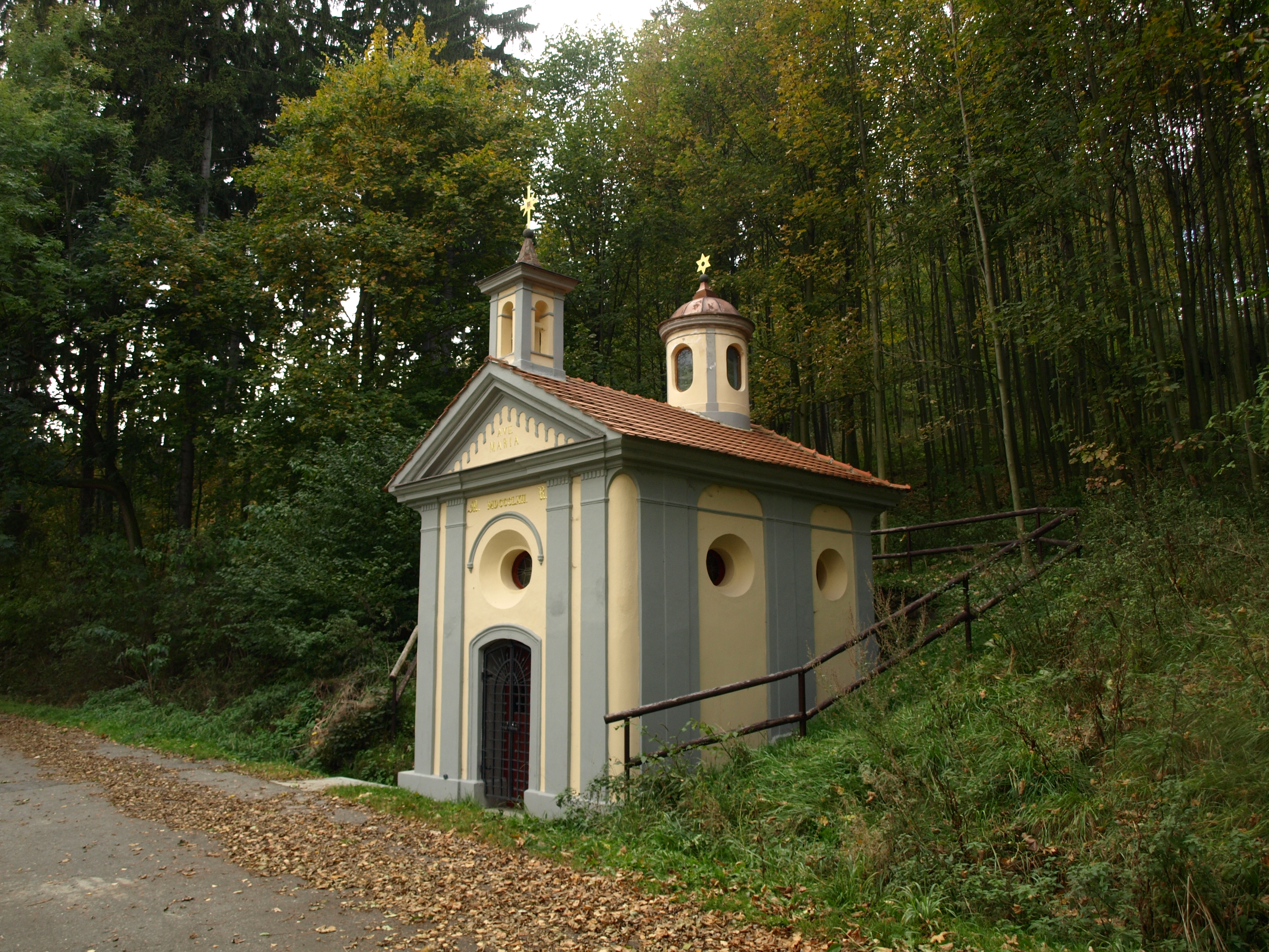 Prachatice